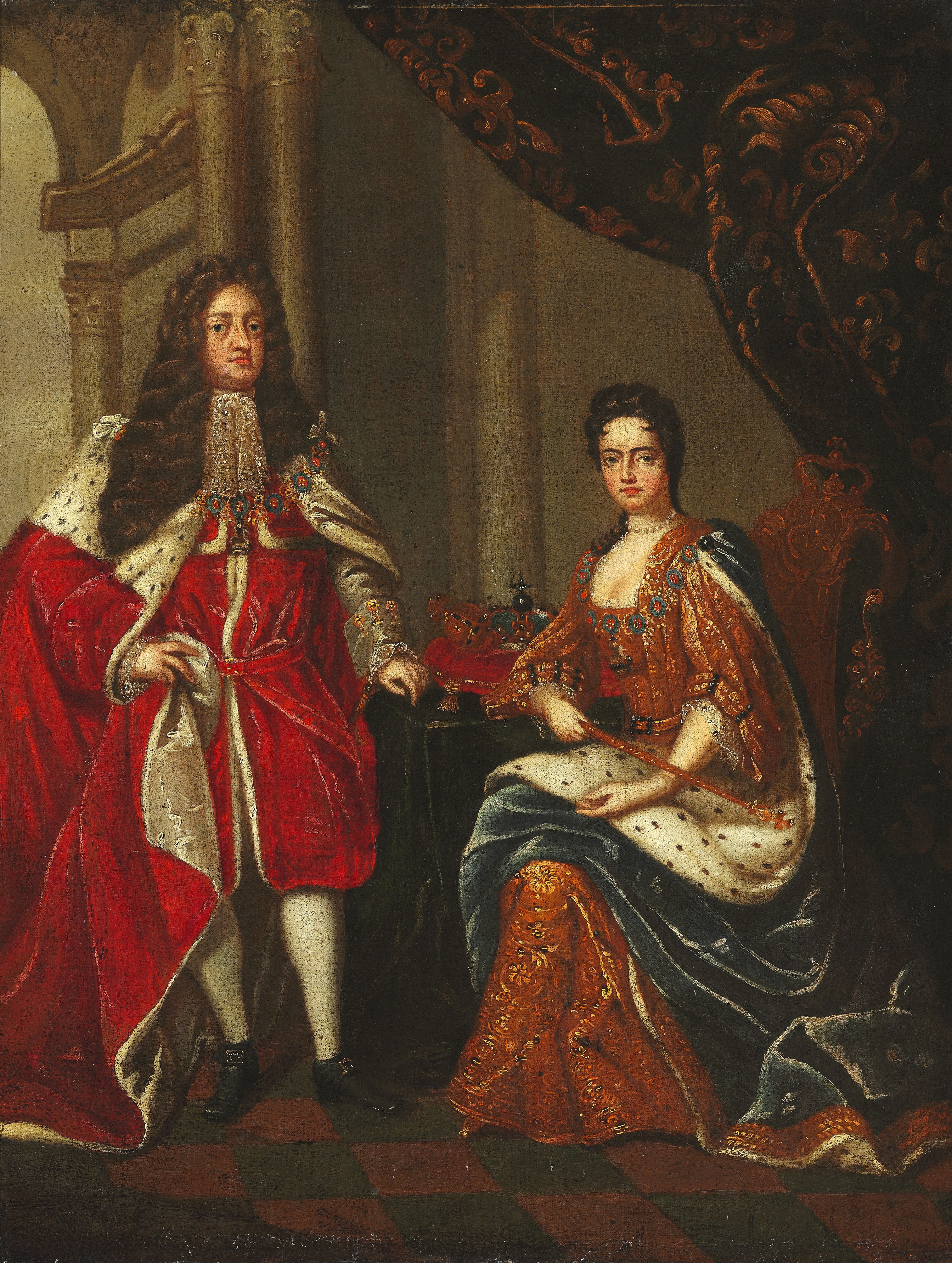 After a original painting by Charles Boit of 1706 in the Royal Collection